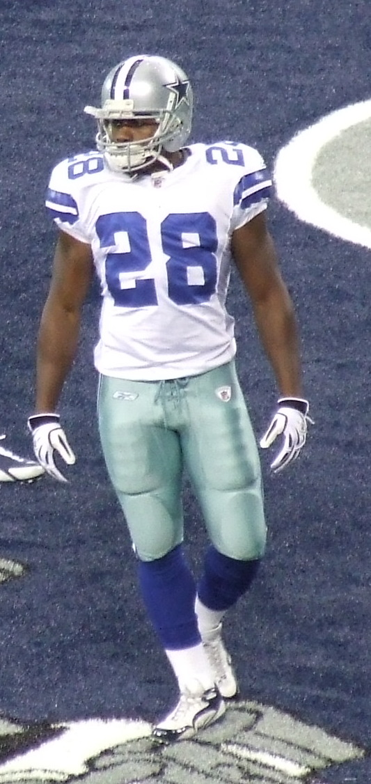 Felix Jones and Isiah Stanbeck